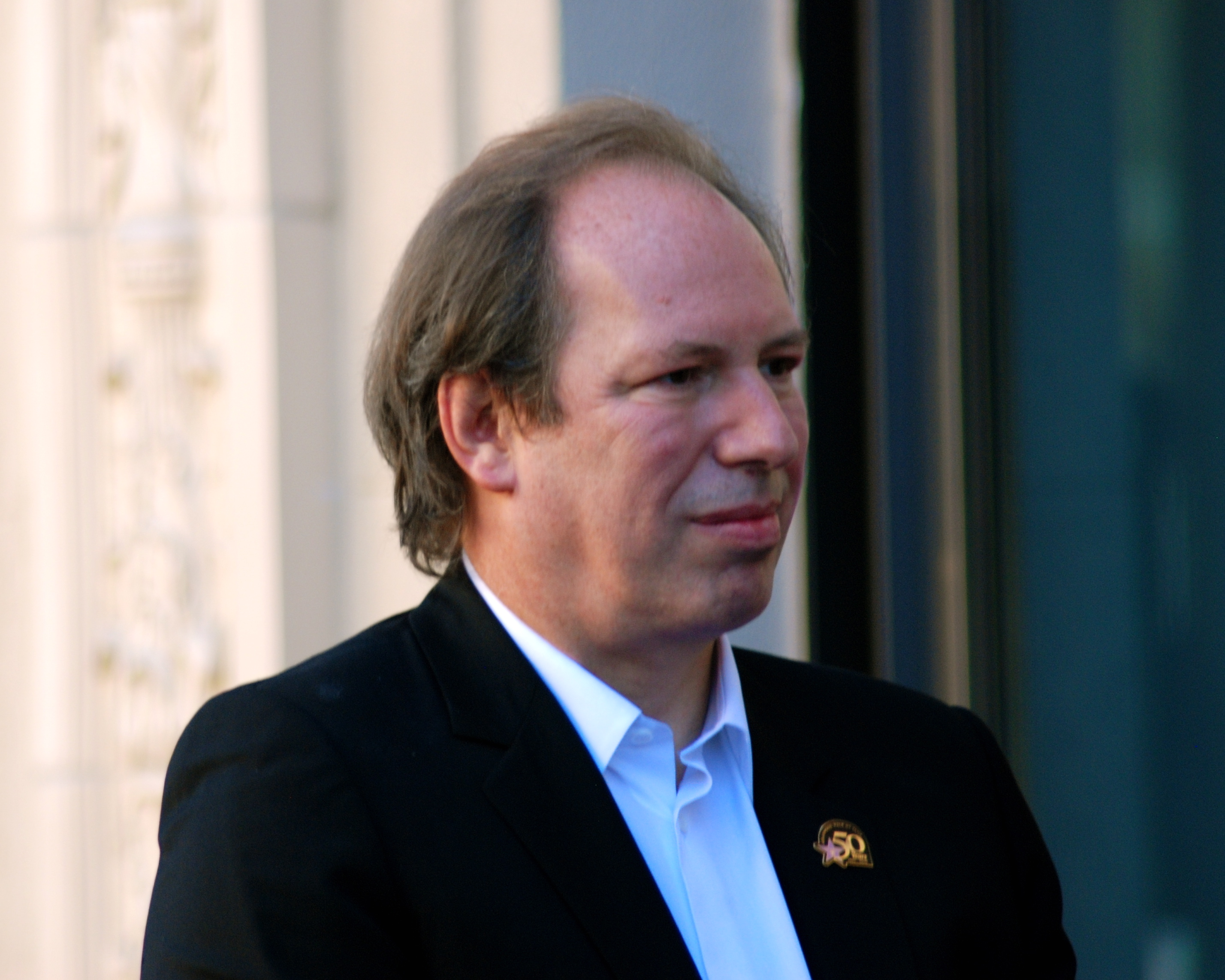 Hans Zimmer at the Hollywood Walk of Fame ceremony in 2010.